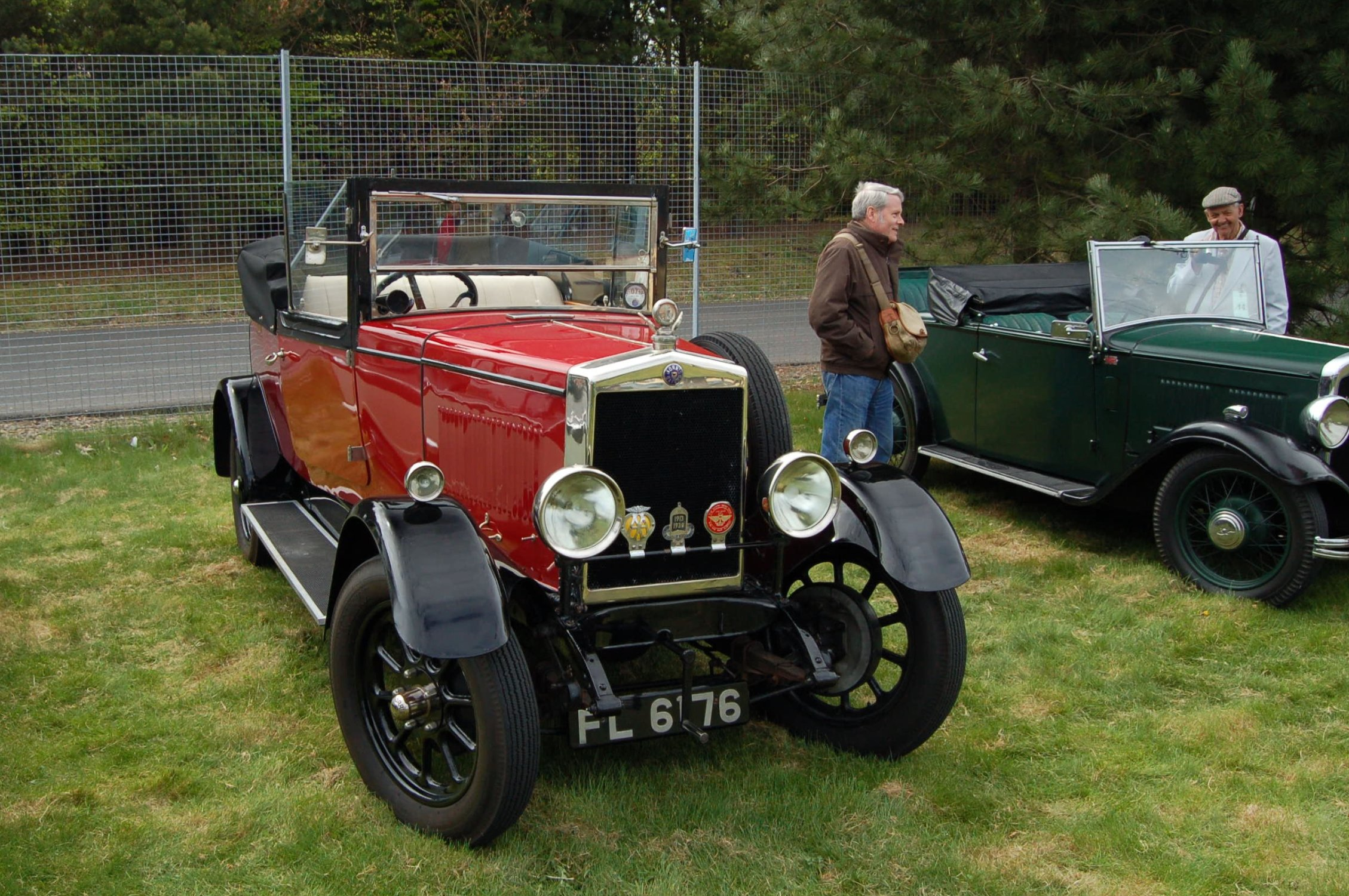 Morris Oxford 2-seater drophead coupé with dickey seat (DVLA) first registered 14 June 1927, 1660cc Woodhorn Classic Car Rally